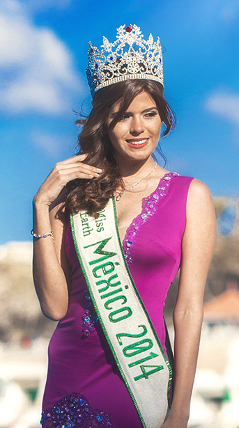 Yareli Carrillo, Miss Earth Mexico 2014 Ahmed Arafa Photography Makeup : L'Oréal Paris Hair : Tarek el soghayar Styling : Italian Fashion Academy